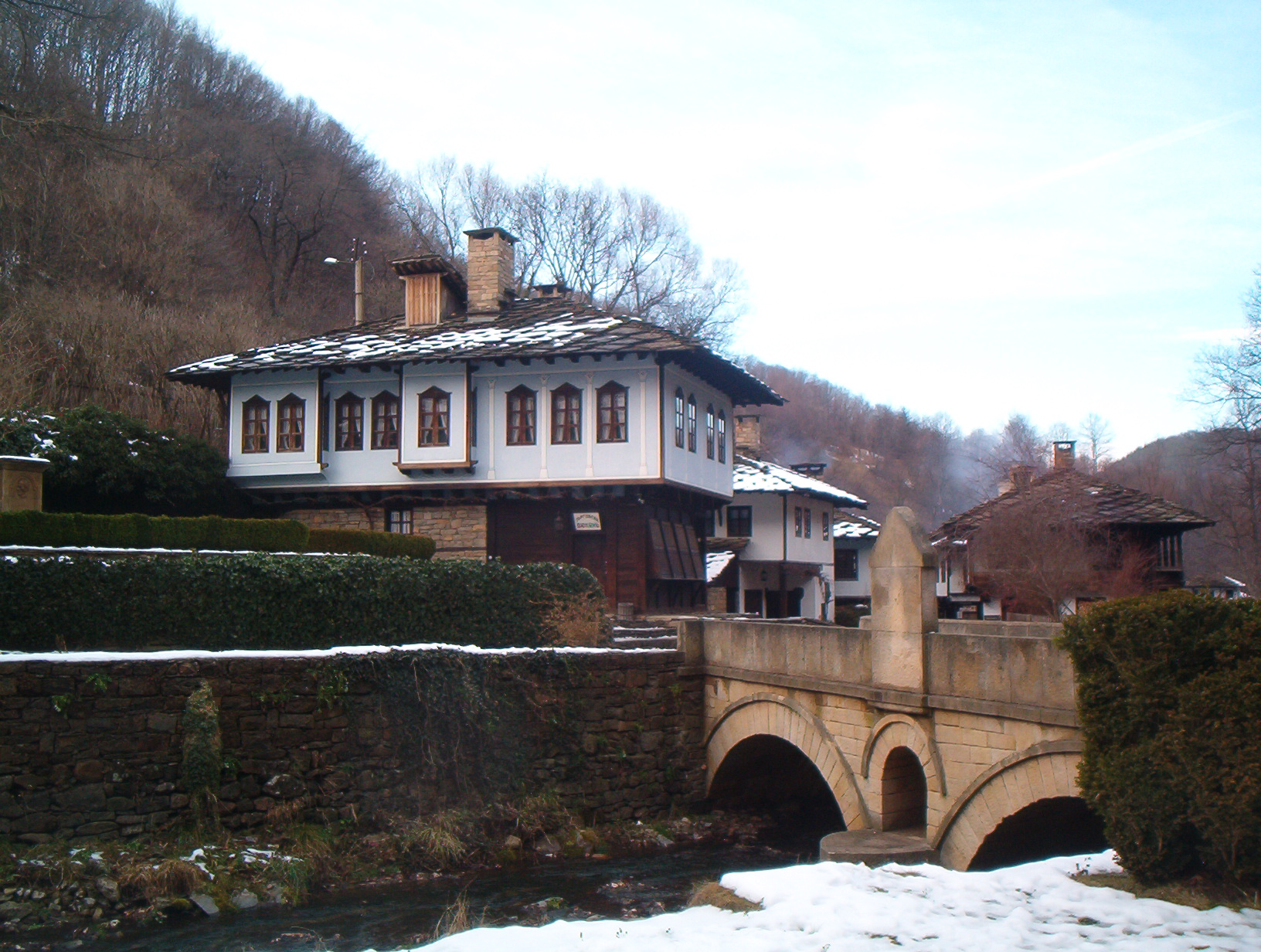 Architecturical-Ethnographic Complex "Etar", Bulgaria